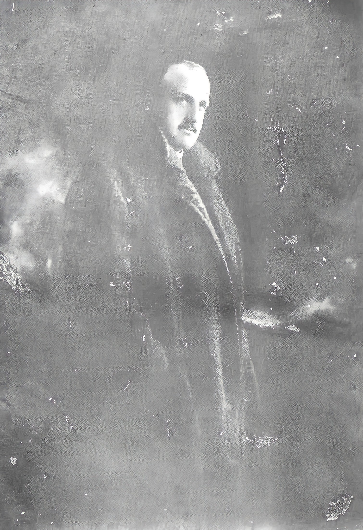 Ziya Songulen in 1907